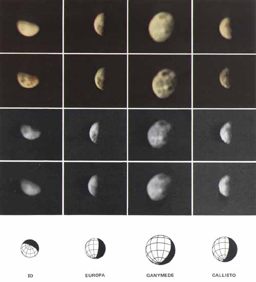 Best images of the four largest moons of Jupiter taken by the Pioneer 10 and Pioneer 11 spacecraft in 1973 and 1974.